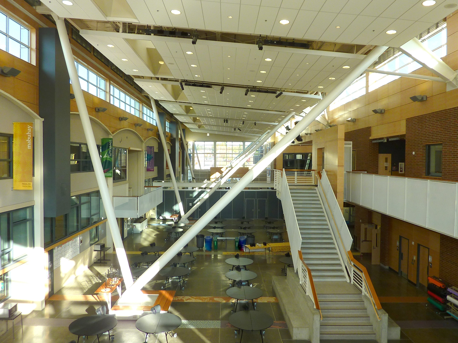 Chief Sealth International High School's Galleria